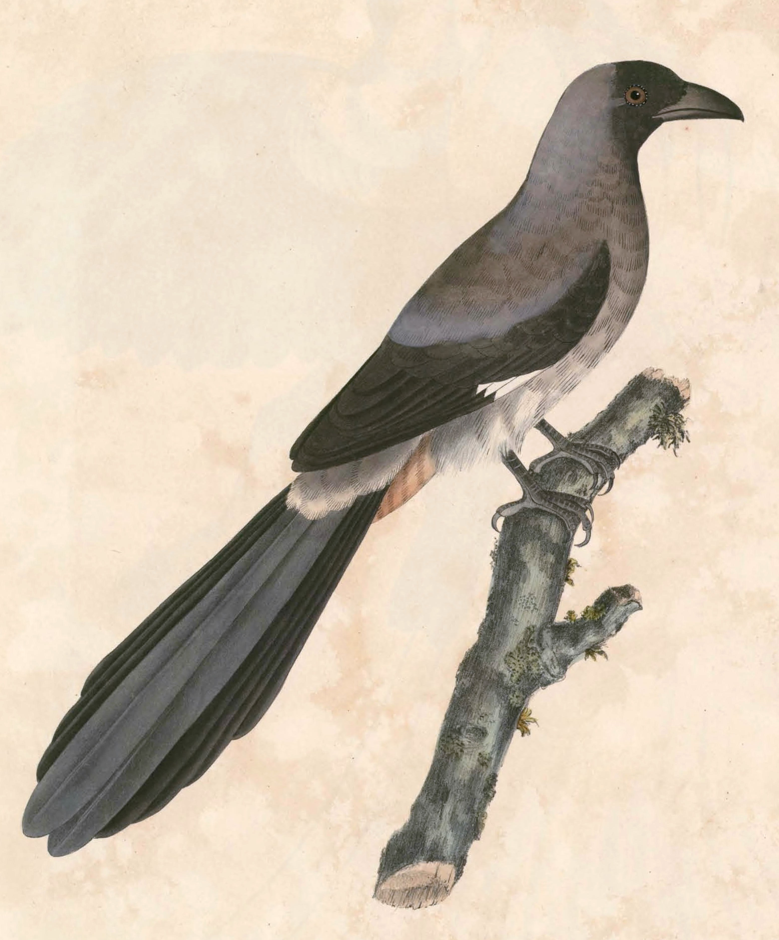 « Pica ginensis » = Dendrocitta formosae (Grey Treepie)